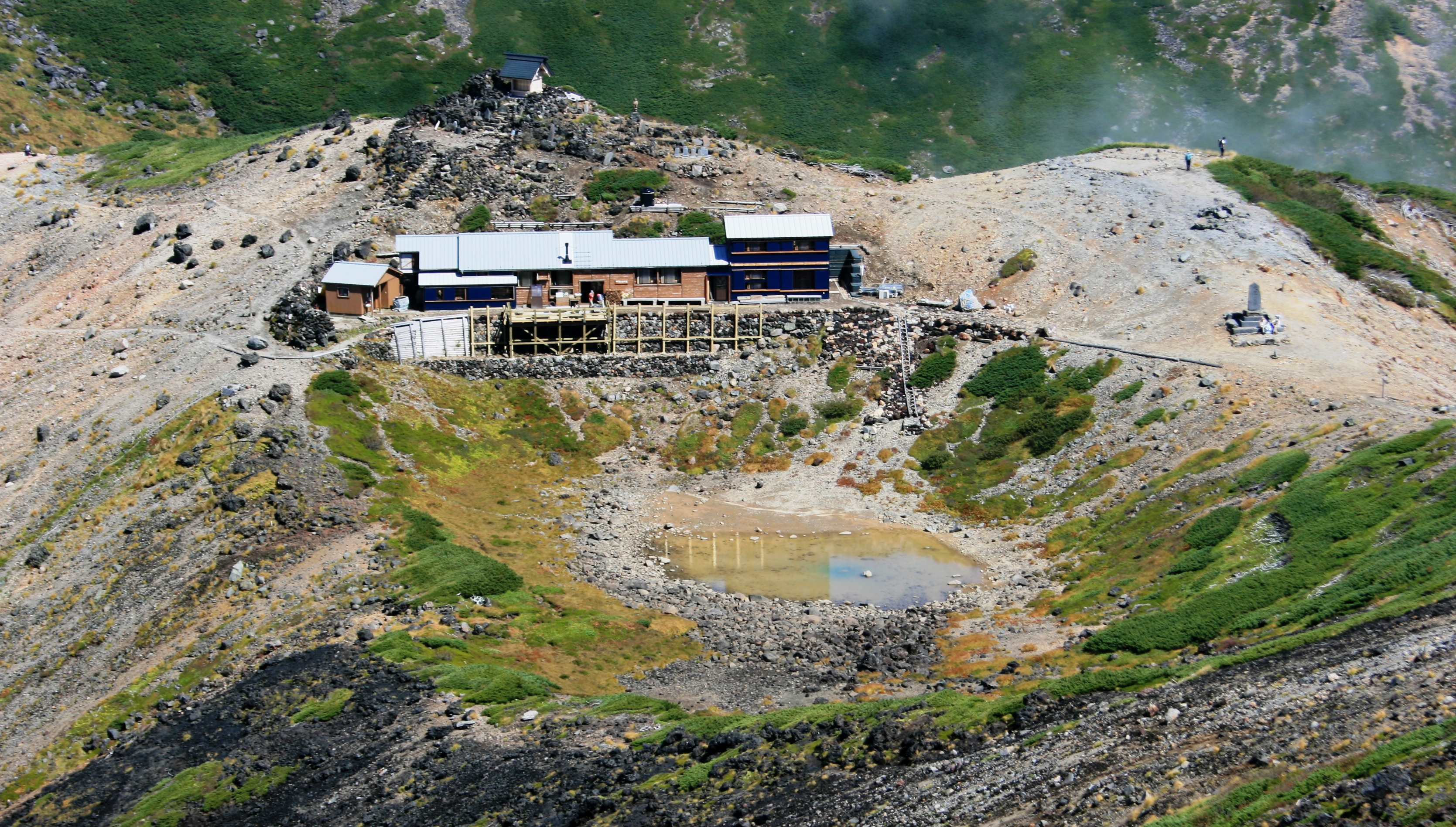 Mount Ontake Gonoike and Hut